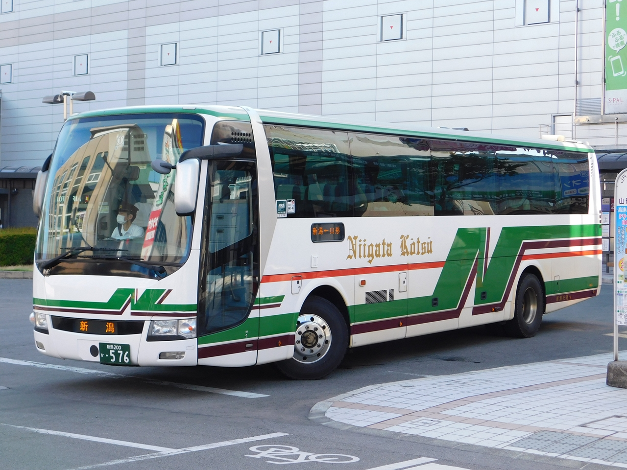 Niigata kotsu Mitsubishi Fuso Aero Acea (BKG-MS96VP)on highwaybus Niigata-Yamagata Nikon Coolpix B500